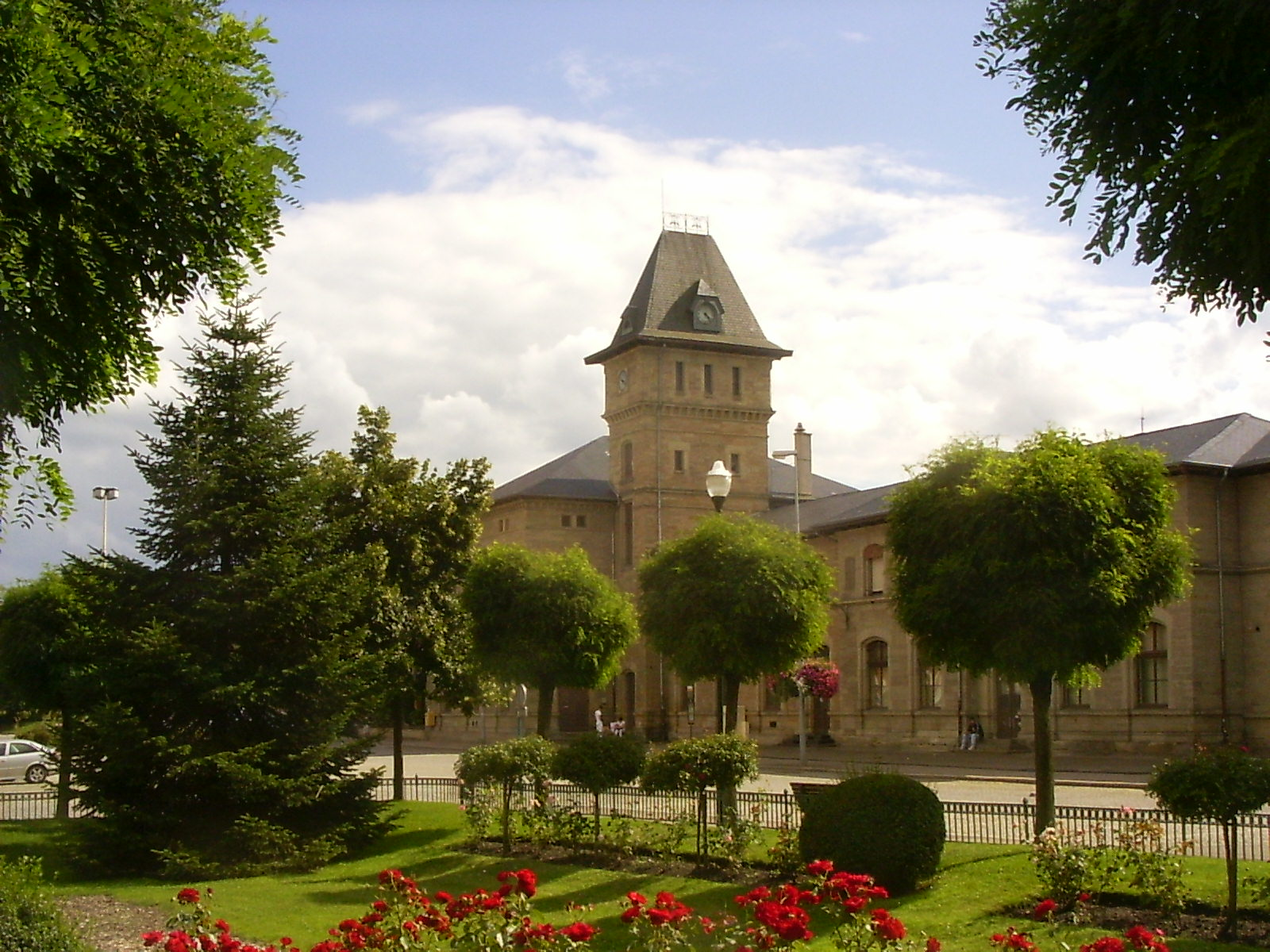 Sarreguemines railway station